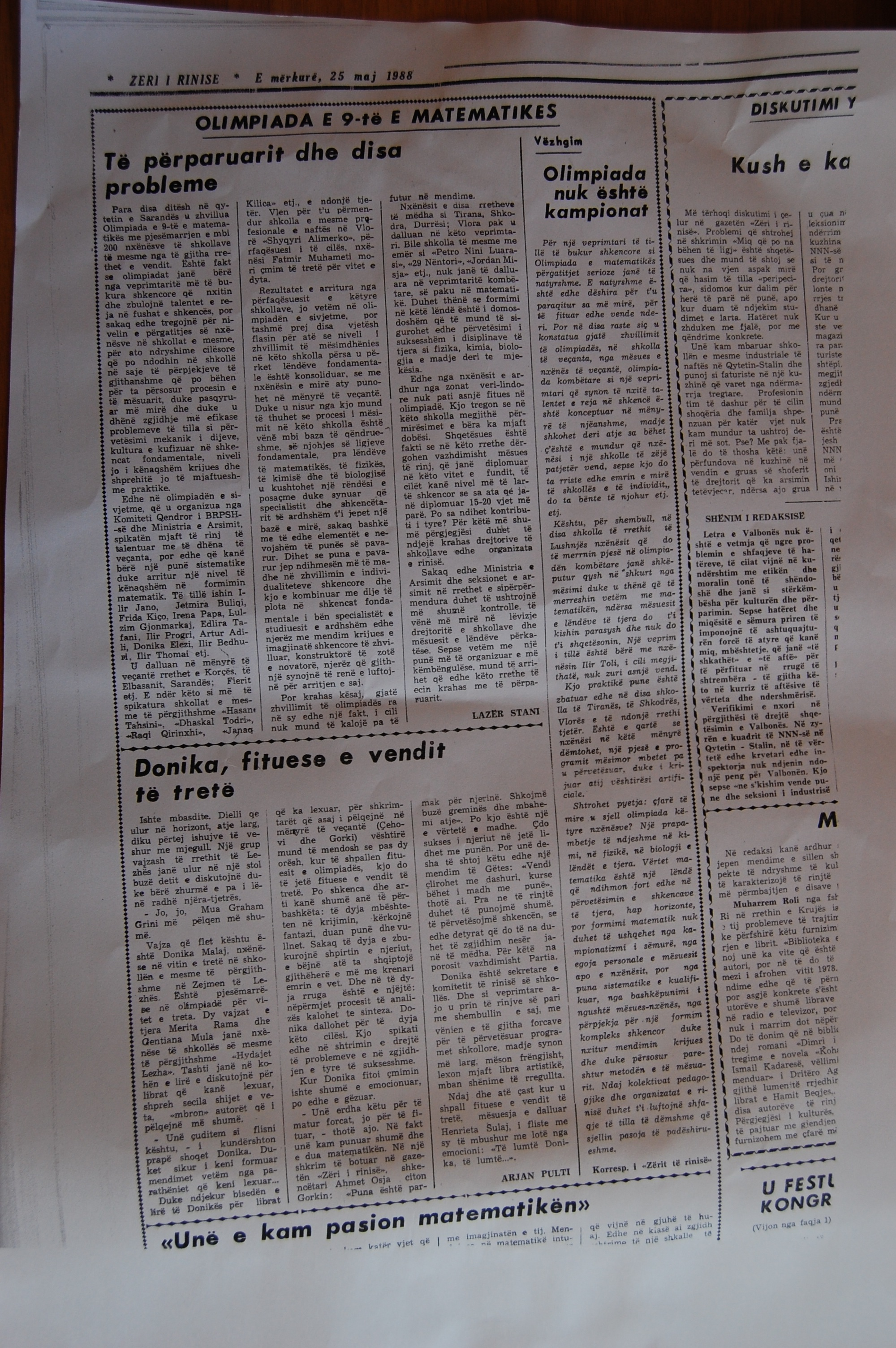 This file is the picture of a journal article in Albanian from 1986. It is copyright-free.